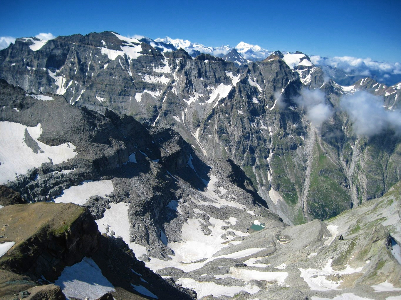 Helsenhorn, Punta Mottiscia and Hillehorn